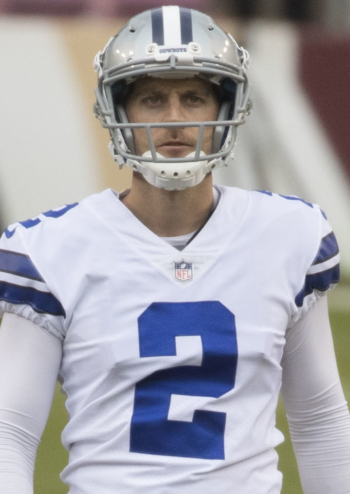 Cowboys at Redskins 10/29/17